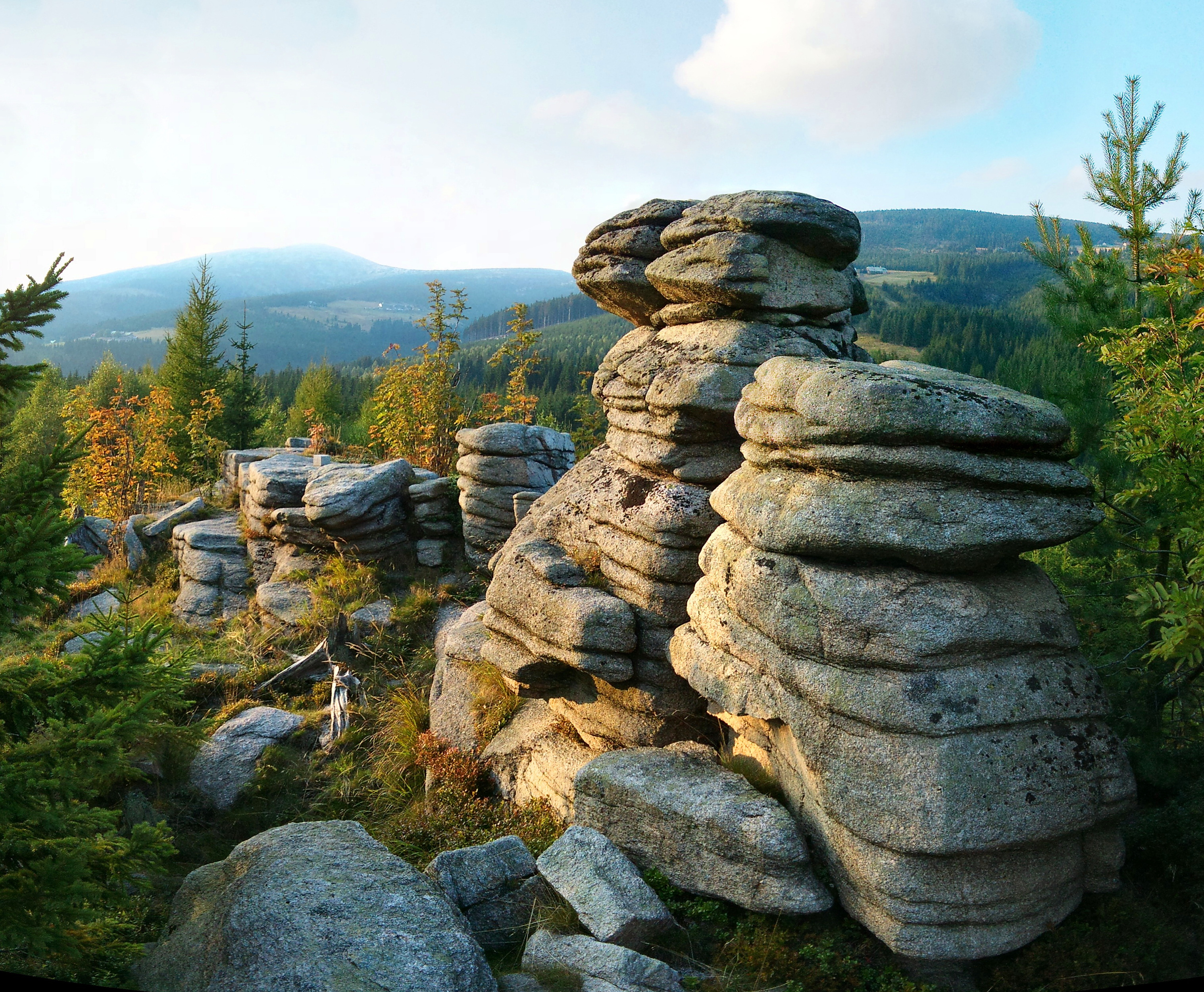 Pevnost in the Krkonoše Mountains